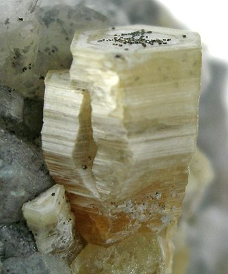 Quartz, Weloganite Locality: Francon quarry, Montréal, Québec, Canada (Locality at ) Size: miniature, 5.2 x 5.1 x 2.8 cm Weloganite and Quartz These remarkable weloganites are best of species, and all came from a few small pockets at this quarry. I think most were collected in the 1970s by Don Doell and friends, of this style. This particular specimen is a choice miniature with a 1.4 cm crystal perched smack dab in the center. These pseudohexagonal crystals have unique form, and look more like a biological growth of coral, than a crystal per se. Still on the specimen is much of the original pocket coating, which is comprised of several other rare species (primarily dresserite), on calcite and small quartz crystals. The little black microcrystals atop may be donnayite but I am not sure. Specimens, particularly with good yellow color, are uncommon and always were...and always will be. According to MINDAT: The quarry has been inactive since 1981 and will never be active again. It is in the central part of the city of Montr�al (pop. over 2.5 million), in a residential area, and owned by the City. It is used for snow dumping in winter. Actually, the quarry could be listed by its city address: 3701 rue Jarry Est, Montreal. ( Although not a US classic, it just fit in well with the update and was handy.)